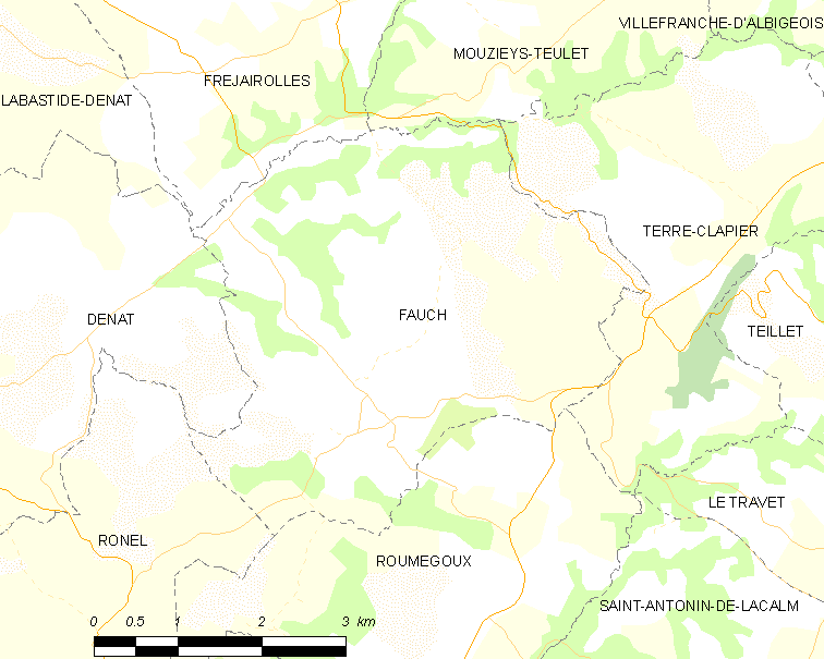 Map of French municipality Fauch